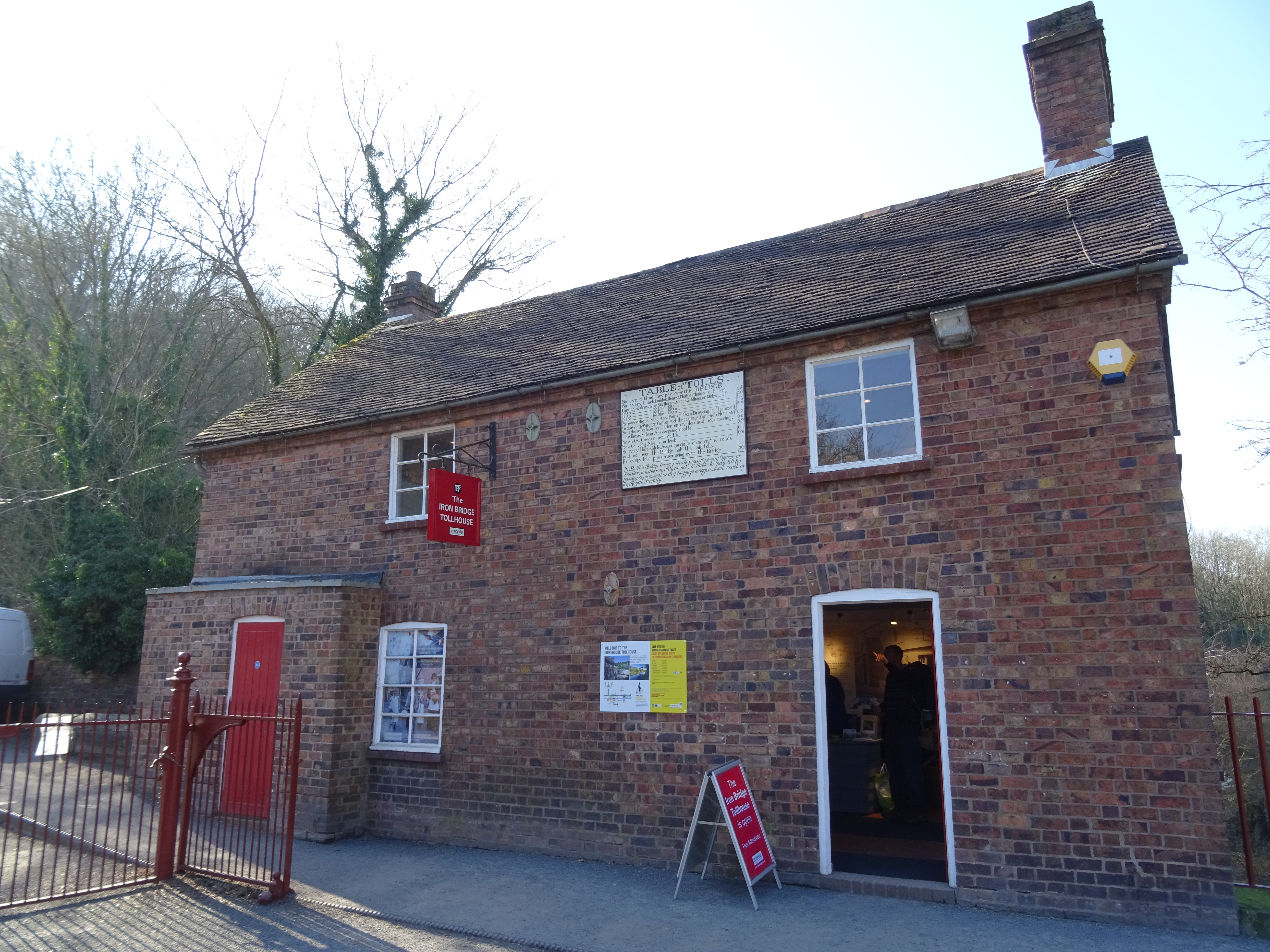 The Iron Bridge tollhouse from the east in February 2019.